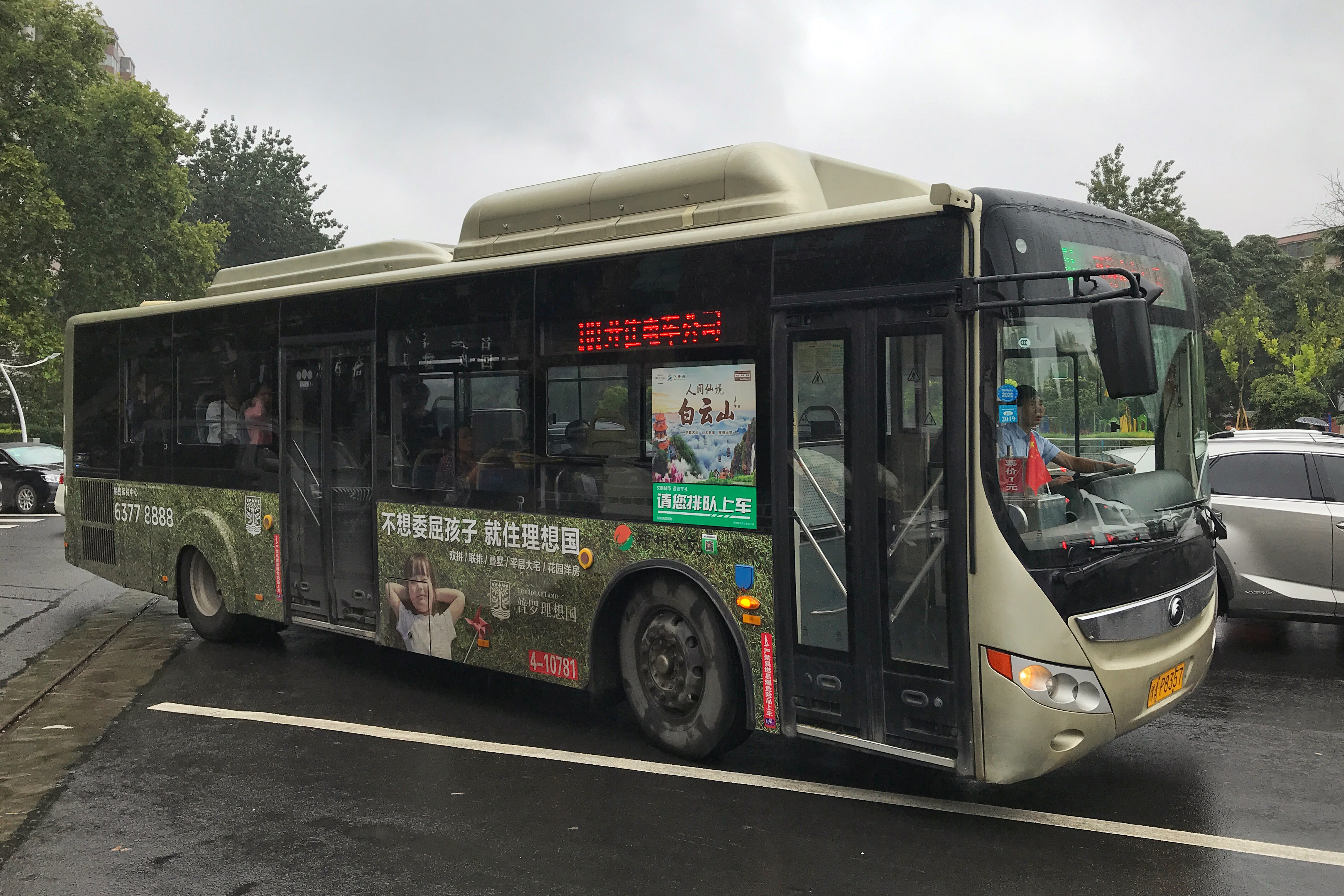 Yutong ZK6105CHEVNPG4 on Zhengzhou Bus Route 101